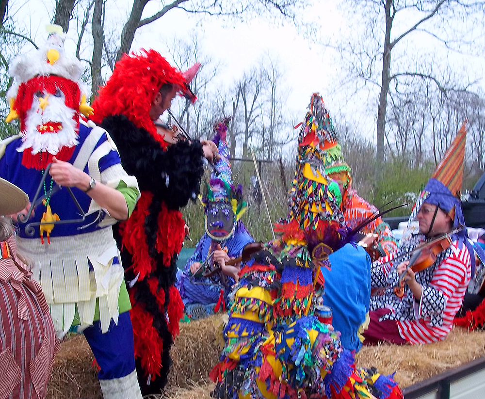 Alan Lafleur of the Lost Bayou Ramblers (red and black feathers) and Gordon Gano (red, white and blue shirt) of the Violent Femmes playing music during the Faquetigue Courir de Mardi Gras in Savoy, La.